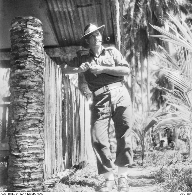 Lieutenant Colonel George Radford Warfe, commanding officer of the Australian 58th/59th Infantry Battalion, at Siar, New Guinea.